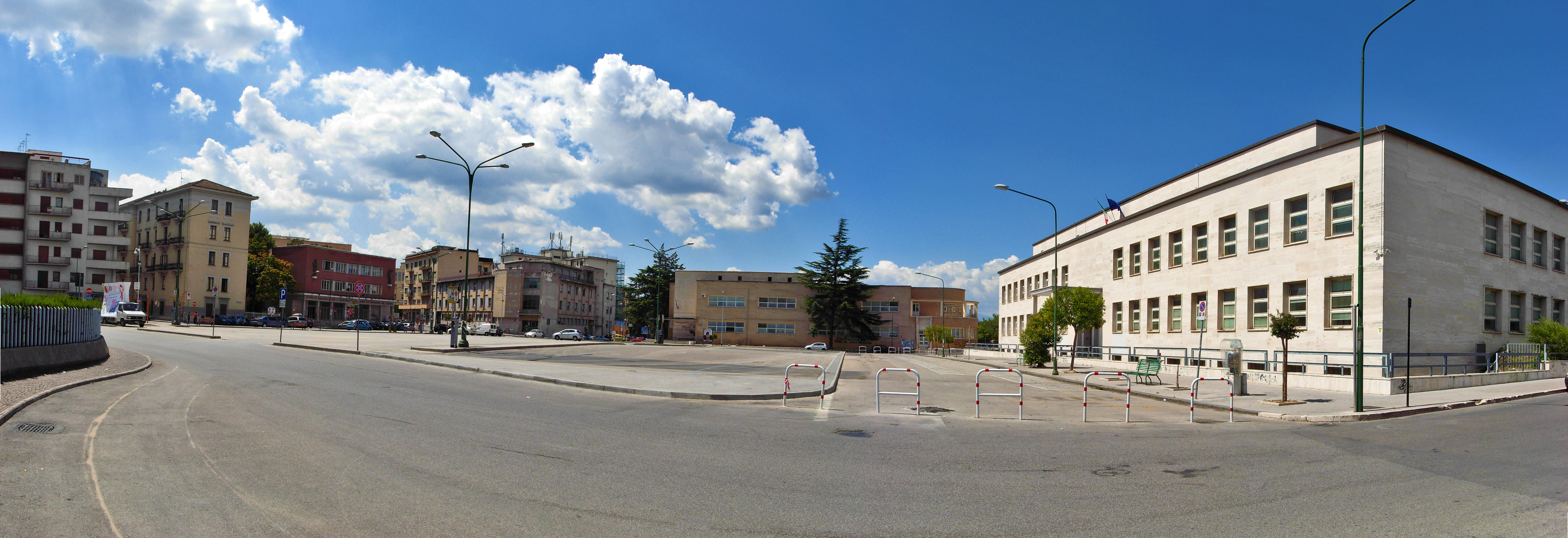 View of Piazza Risorgimento in Benevento, Italy, surrounded by rationalist buildings.